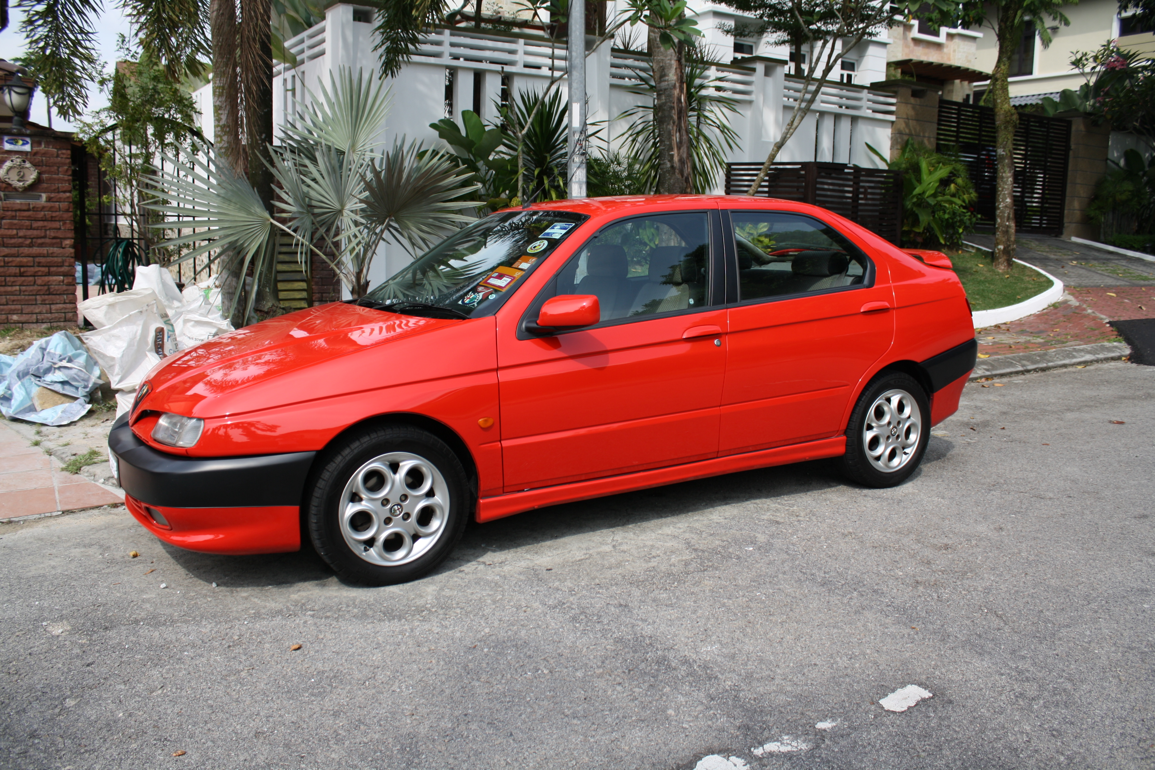 A 1995 Alfa Romeo 146 1.7 16v